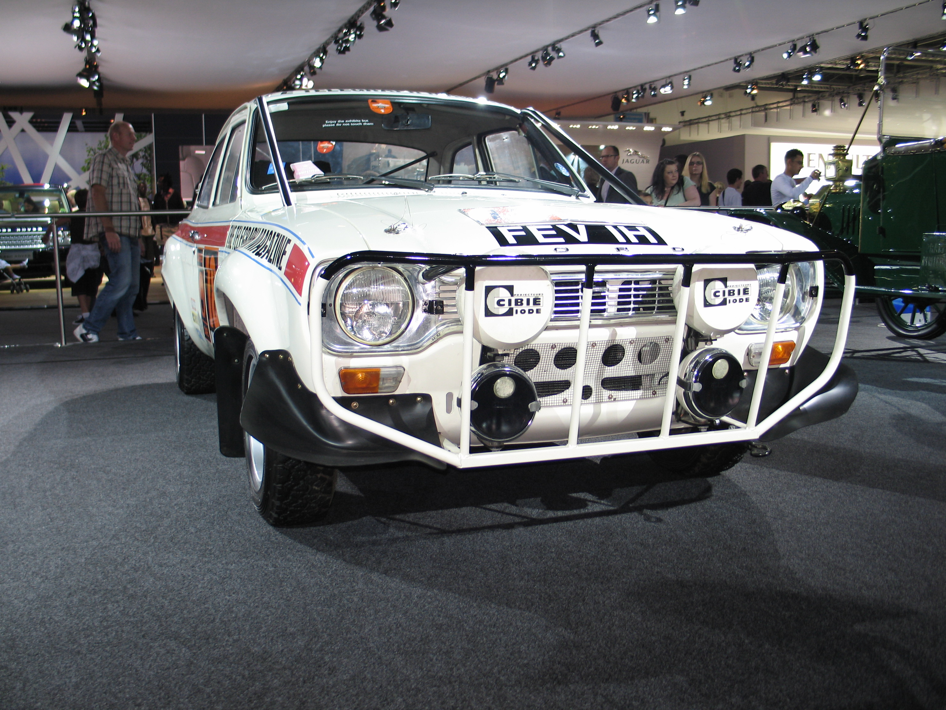 The Ford Escort (pushrod engined prototype based on the RS1600) which won the 1970 London to Mexico World Cup Rally, in the hands of Hannu Mikkola, at the 2008 British International Motor Show. Mikkola's co-driver was Gunnar Palm.